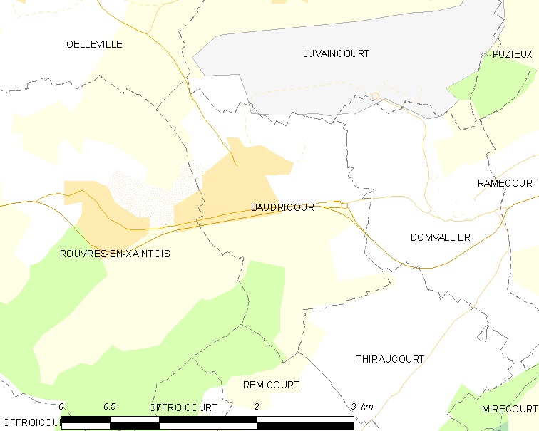 Map of French municipality Baudricourt